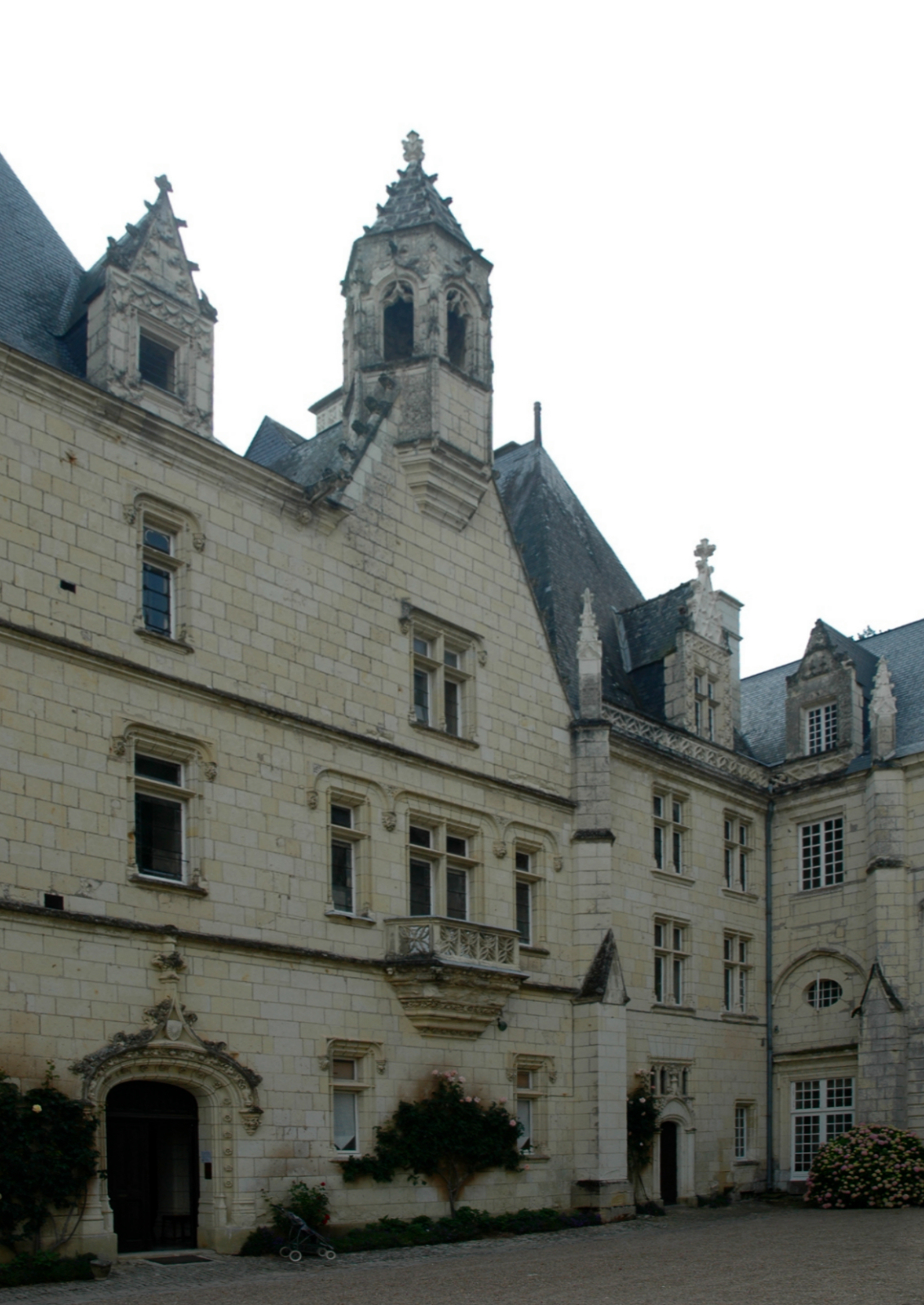 The Château d'Ussé, east wing